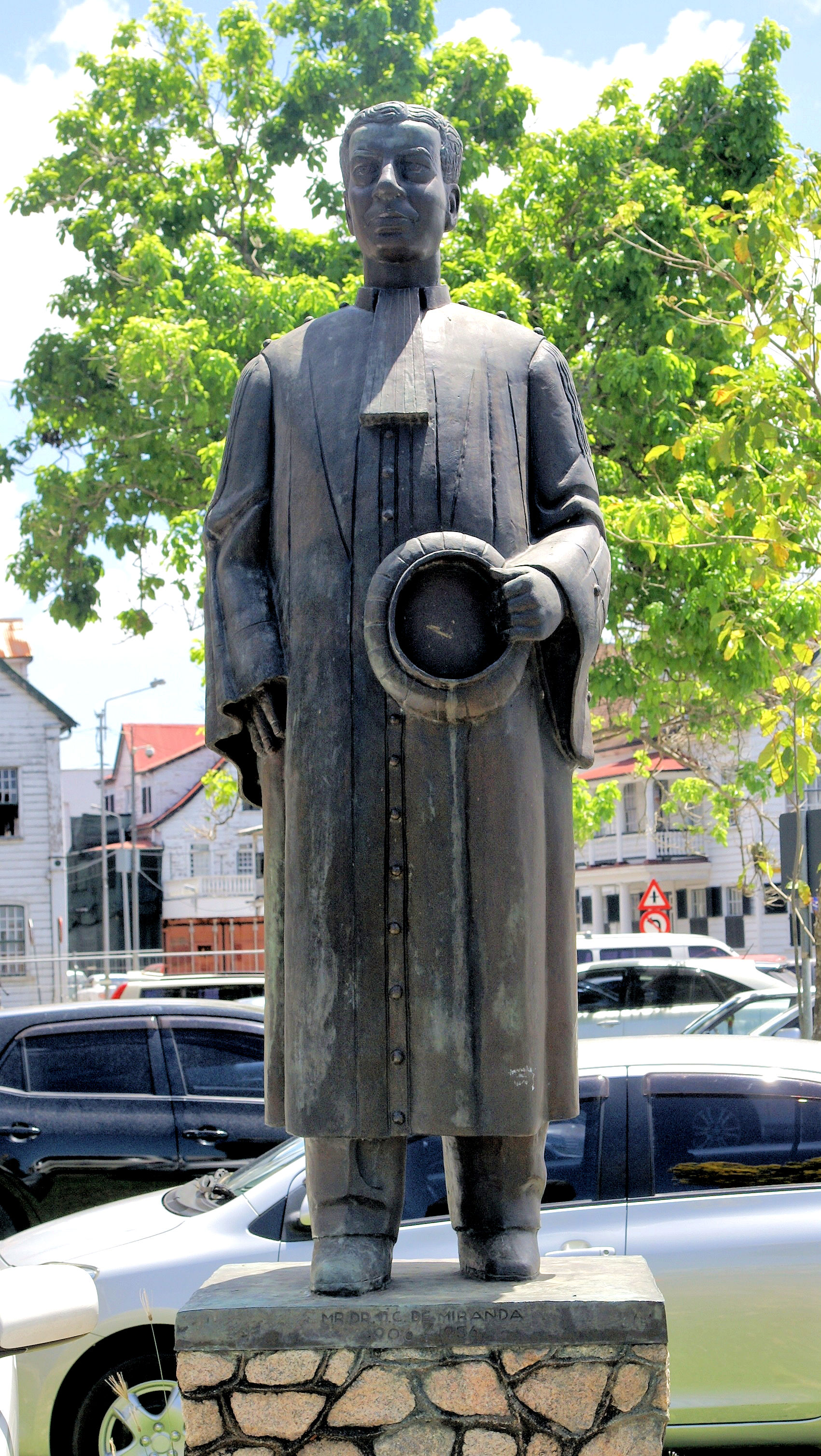 Statue of Mr. Dr. Julius Caesar de Miranda, Mr. Dr. J.C. de Mirandastraat, Paramaribo, Surinam. By Leo Braat, 1961.